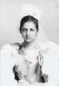 Catherine Hilda Duleep Singh, debut at Buckingham Palace, 1894